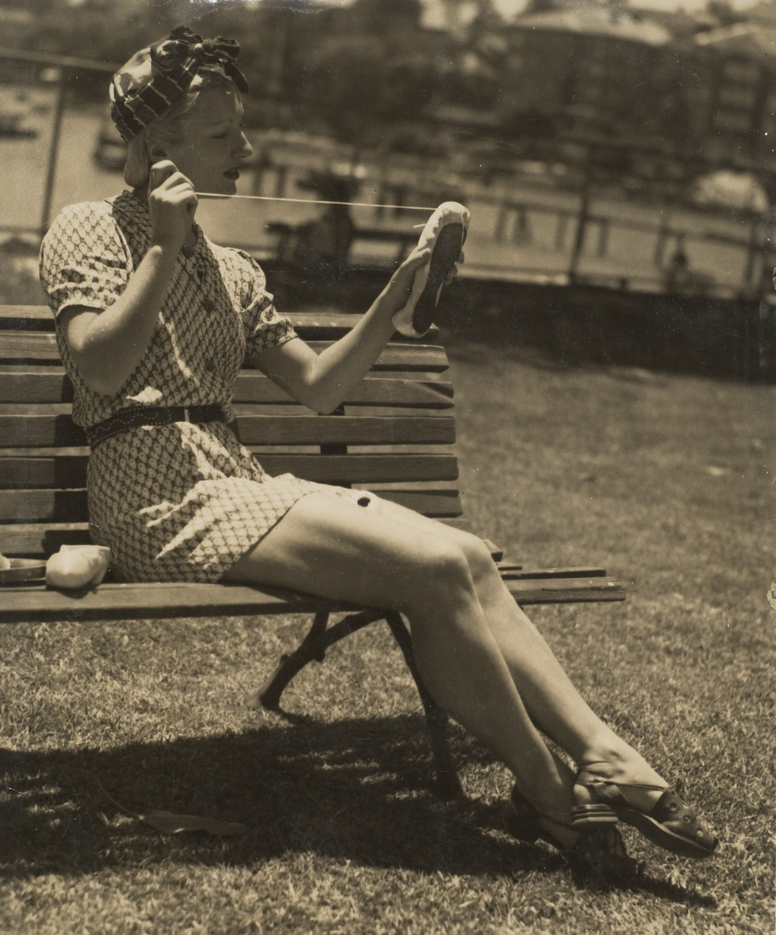 Tatiana Riabouchinska, one of the leading ballerinas of the 1930's, darns a ballet slipper, probably in Rushcutters Bay Park, on a warm Sydney day.